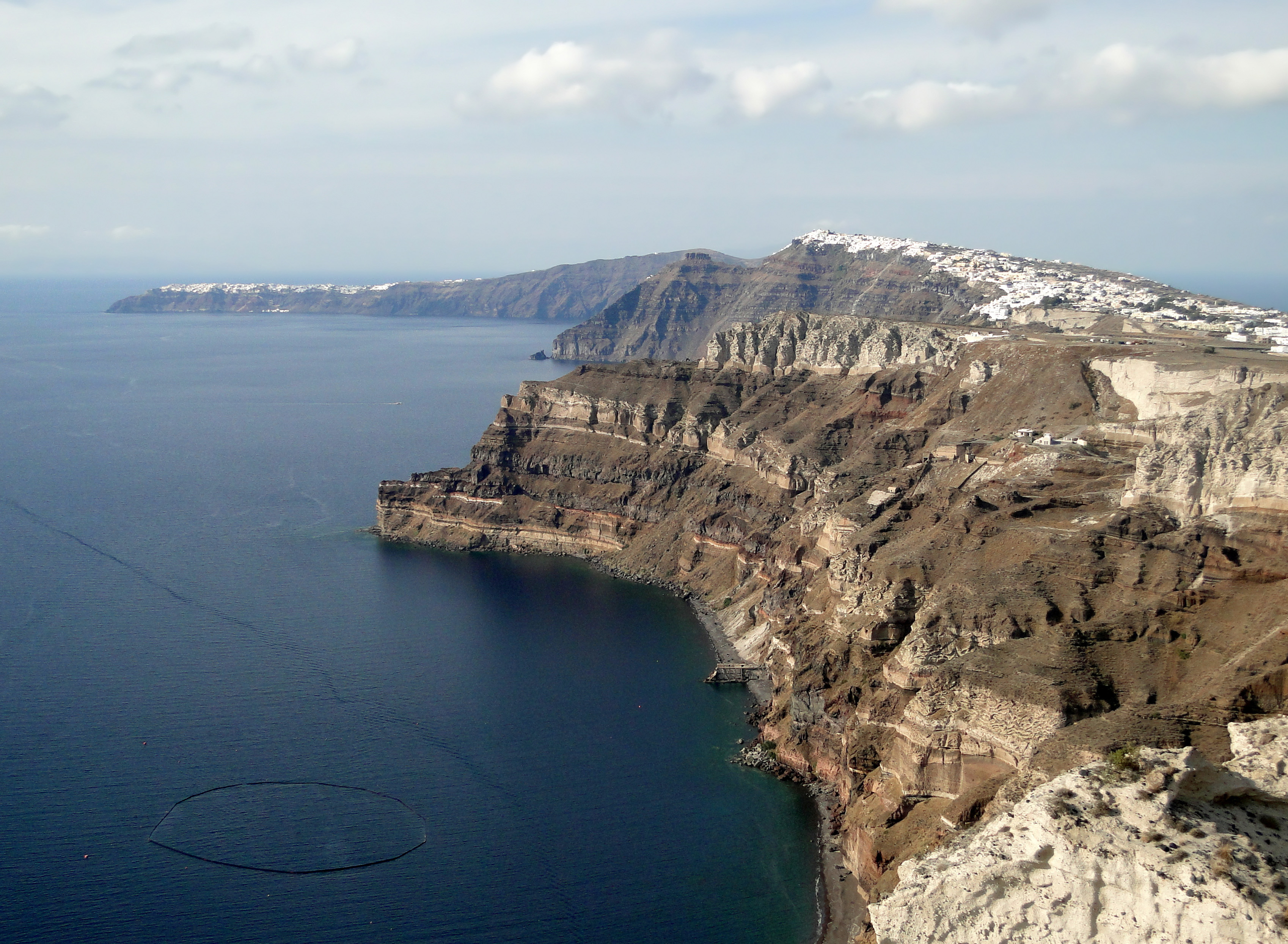 View of Oia (left) and Fira (right), Santorini, Greece